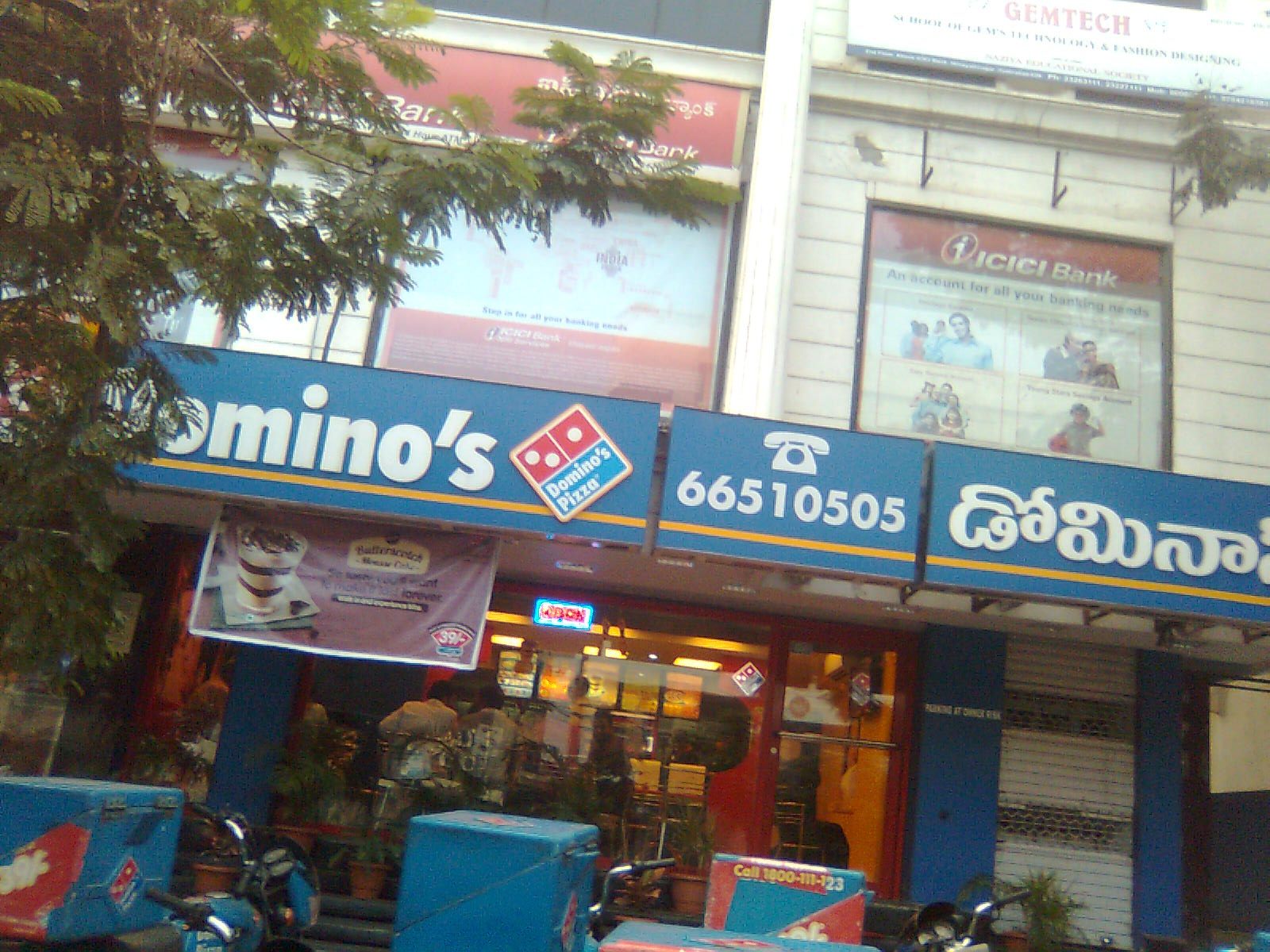 Domino's Outlet @ Himayatnagar, Hyderabad, Andhra Pradesh, India